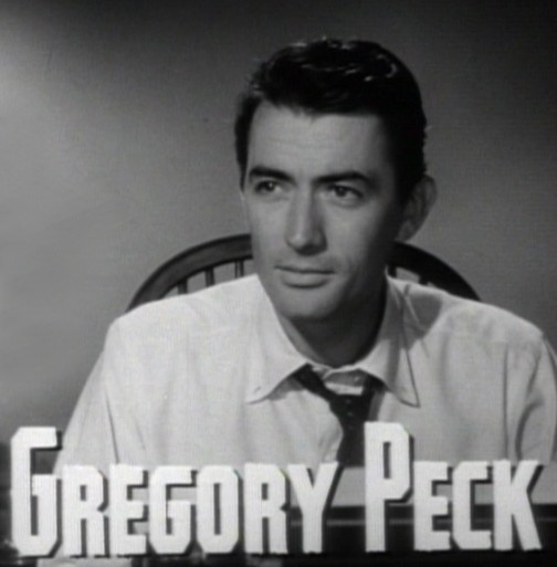 Cropped screenshot of Gregory Peck from the trailer for the film Gentleman's Agreement.